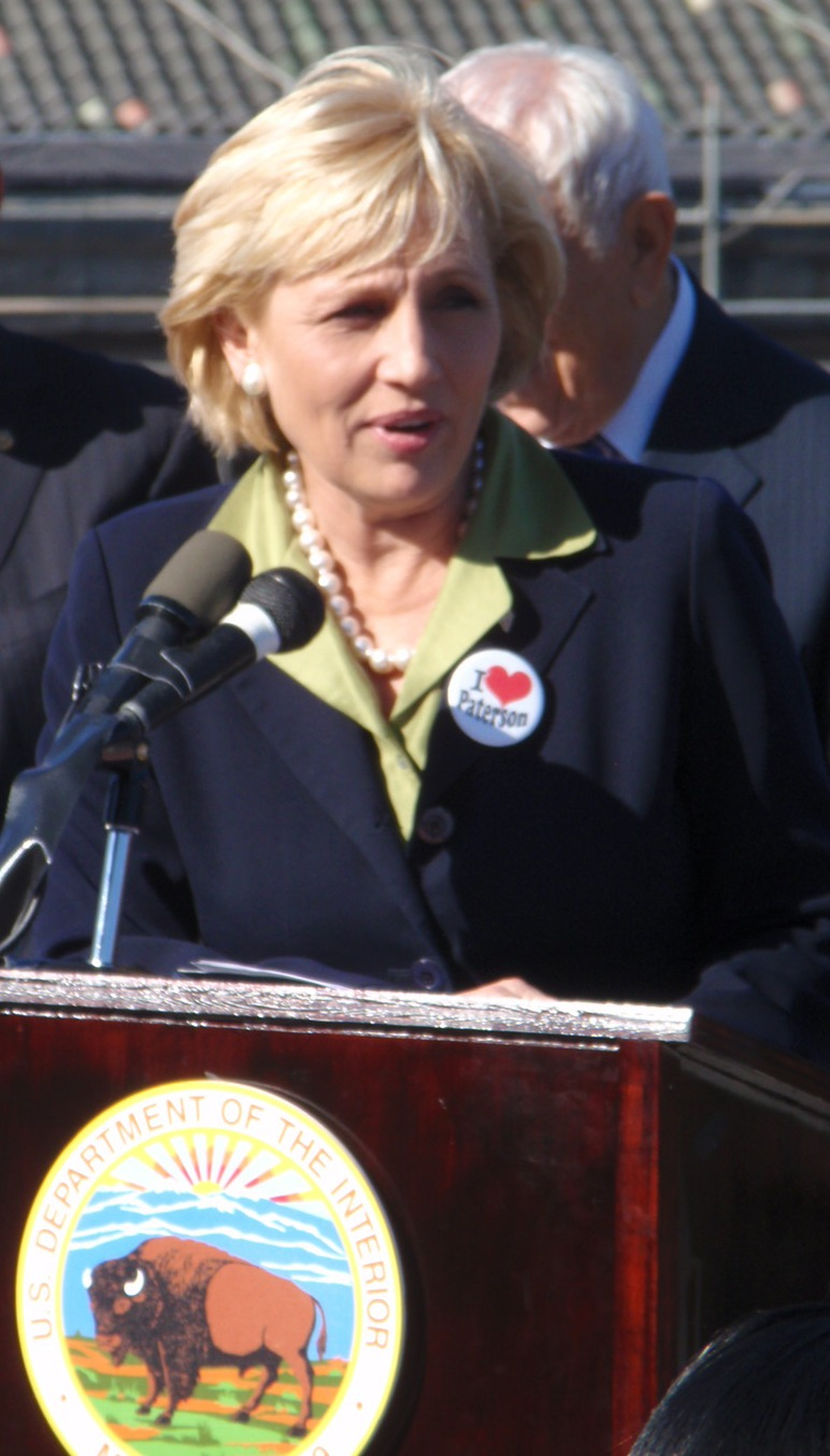 Photograph of NJ Lieutenant Governor Kim Guadagno at the National Park Service's dedication ceremony for Great Falls Paterson, 7 November 2011